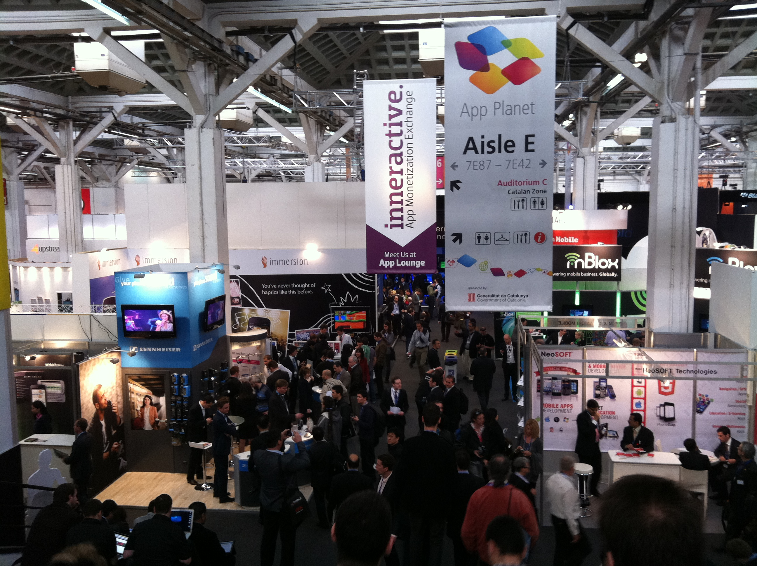 Mobile World Congress 2012 in Barcelona